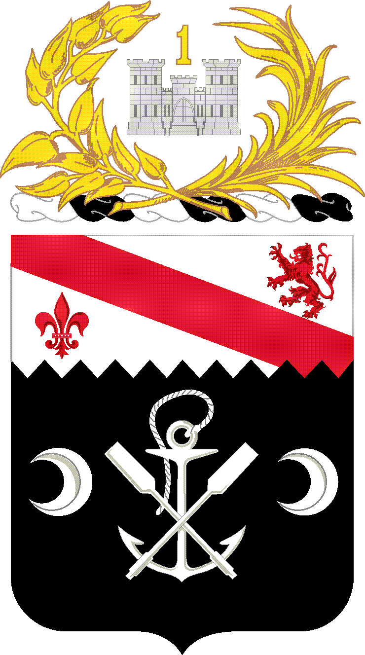 1st ENGINEER BATTALION Coat Of Arms